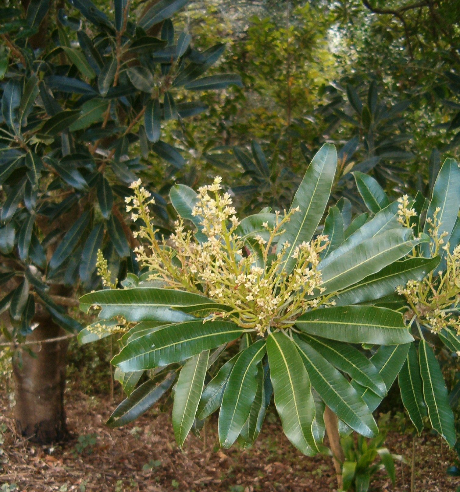 At Kirstenbosch National Botanical Gardens Name Protorhus longifolia